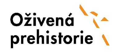 The logo of the Revived (pre)history - an association promoting archaeology at the prehistoric village in the Zoological and botanical garden in Pilsen